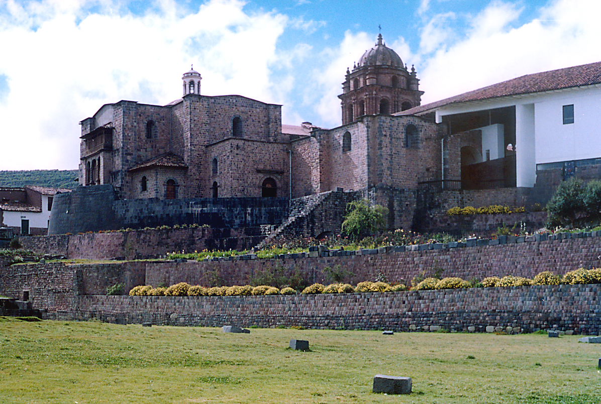 Coricancha, Cusco, Peru. The photo was taken by Håkan Svensson (Xauxa) in 2002.